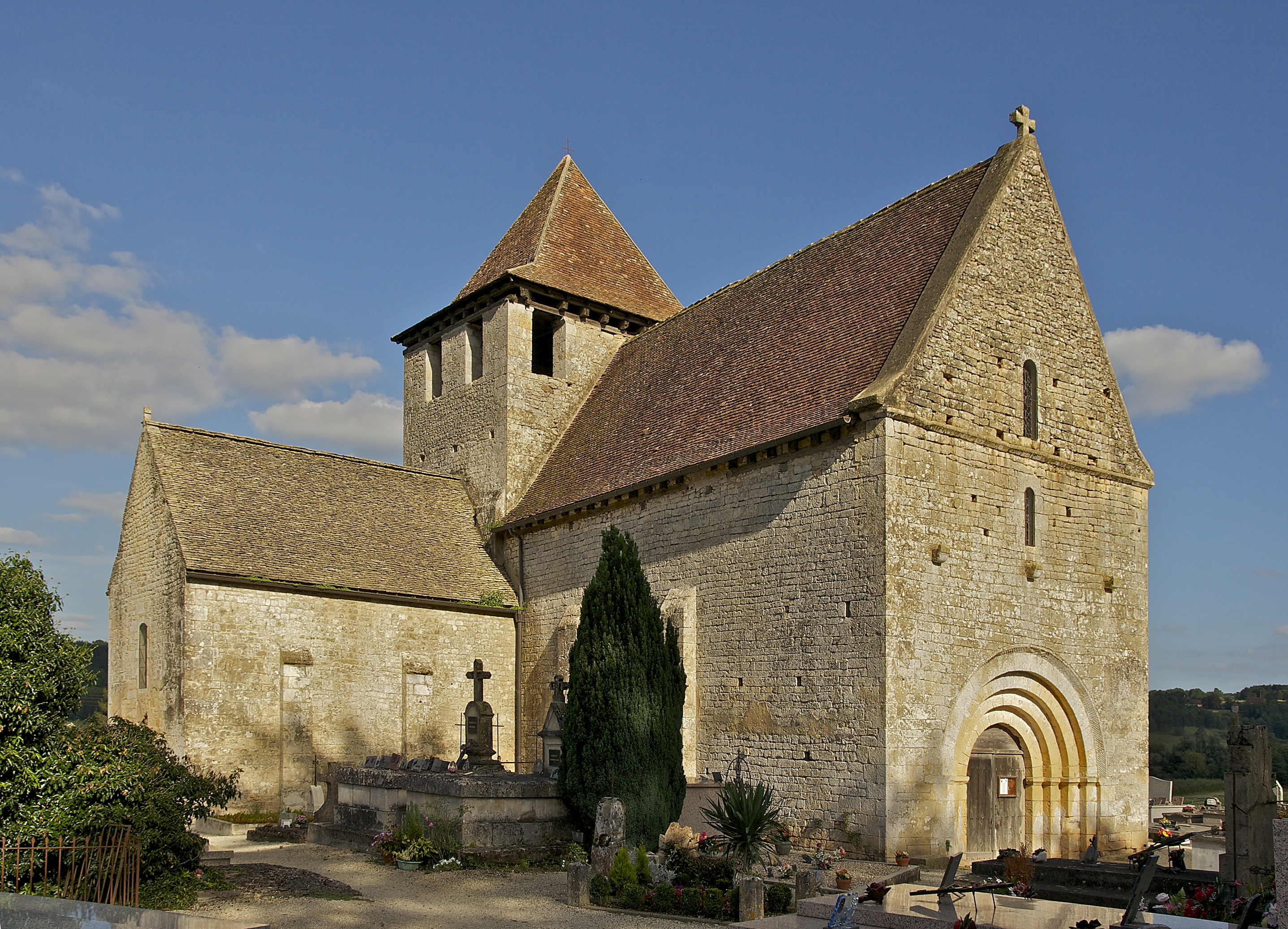 In Limeuil Dordogne, France, this 12th century Romanesque church and 13th & 14th centuries side chapel. Roof built in lauze stone over the choir and the chapel. Frescoes and dedicatory inscriptions inside.